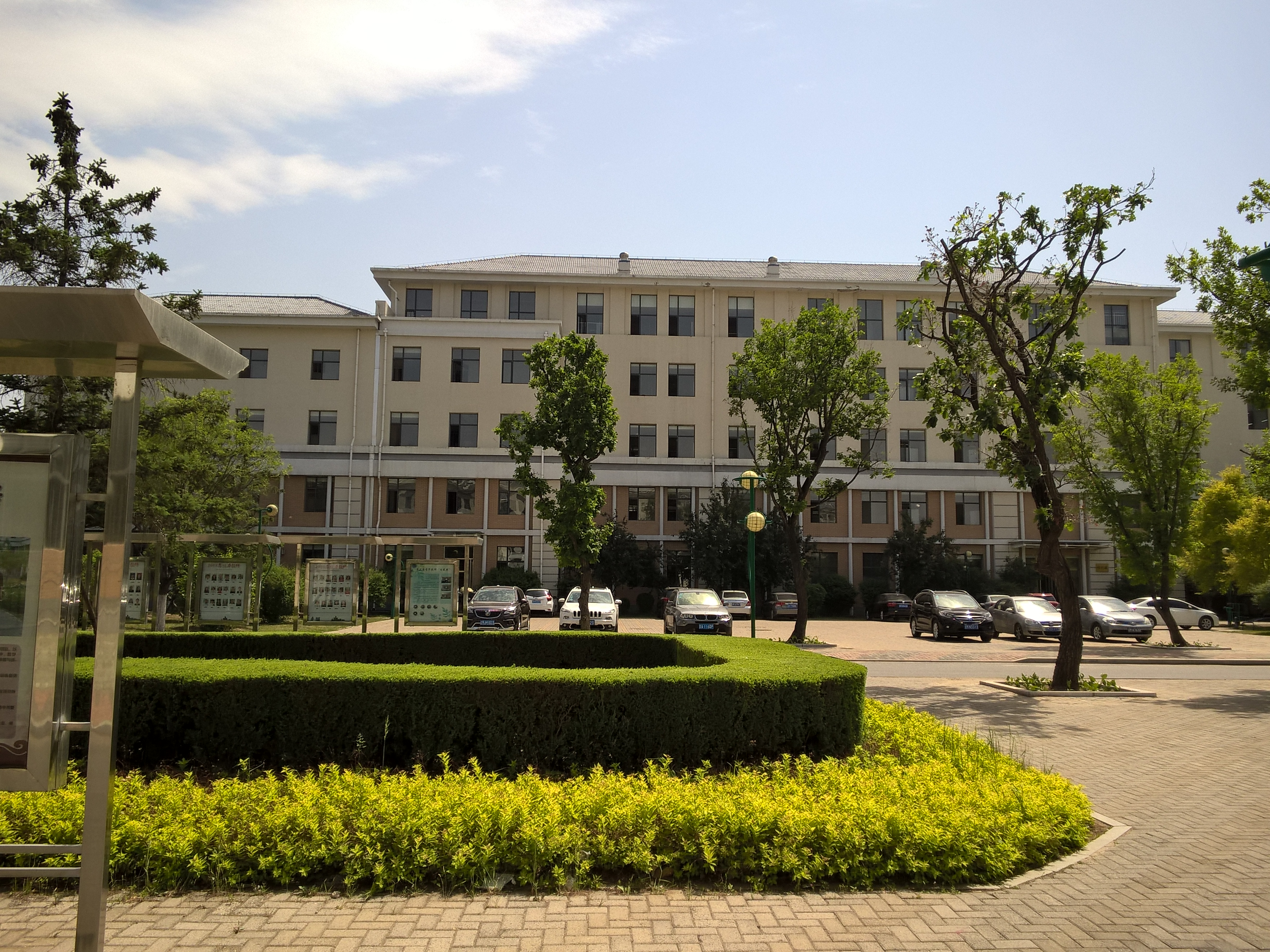 The school migrated from the old campus in Yinzhou District,Tieling City to its new campus in Fanhe Town,Tieling in 2011.